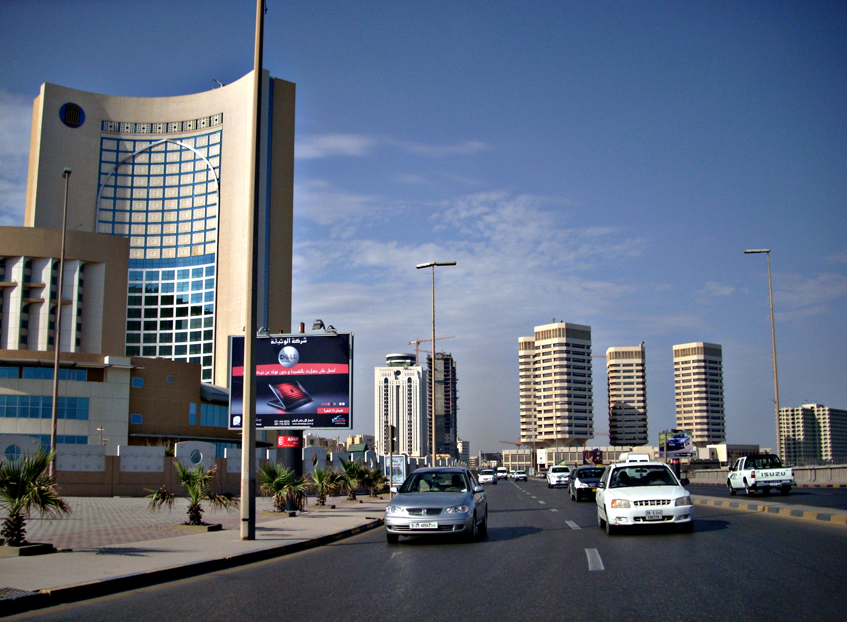 Office and hotel towers along Shari' al Corniche, as well new towers under construction in the background (such as the Daewoo Tripoli Hotel).